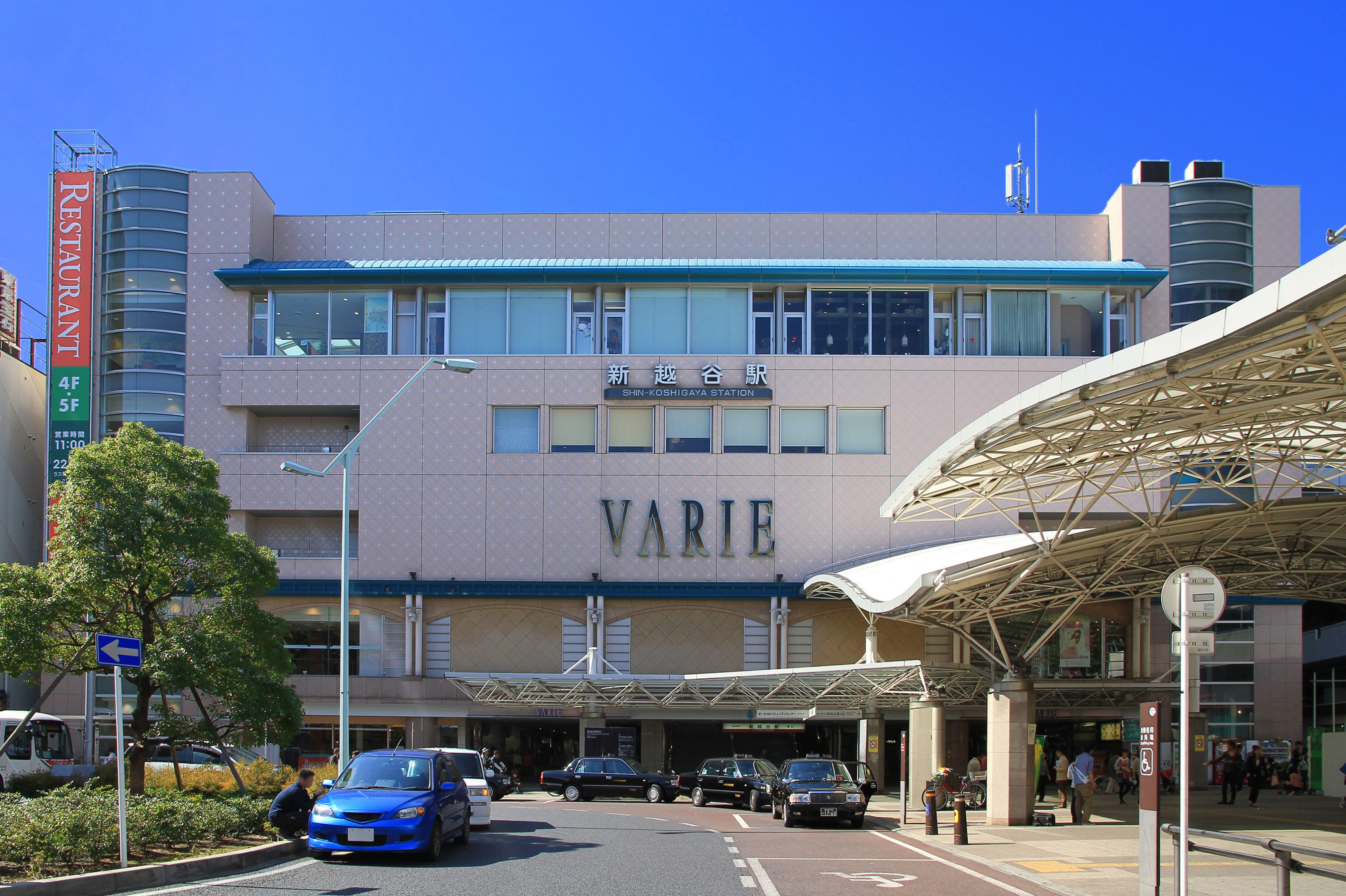 The east entrance to Shin-Koshigaya Station on the Tobu Skytree Line in Saitama Prefecture, Japan